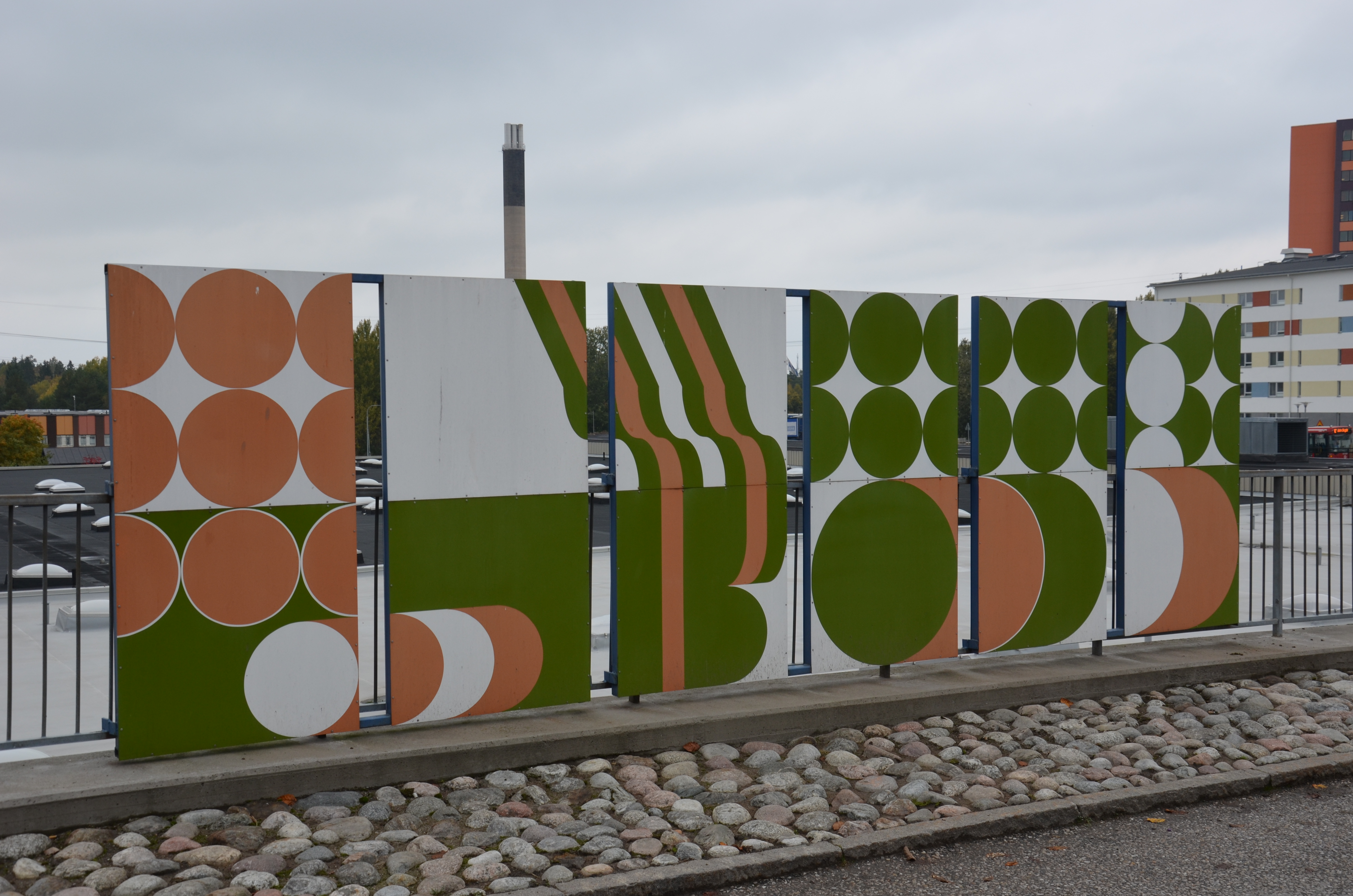 Beck & Jungs Hej patient, entrén till Huddinge sjukhus